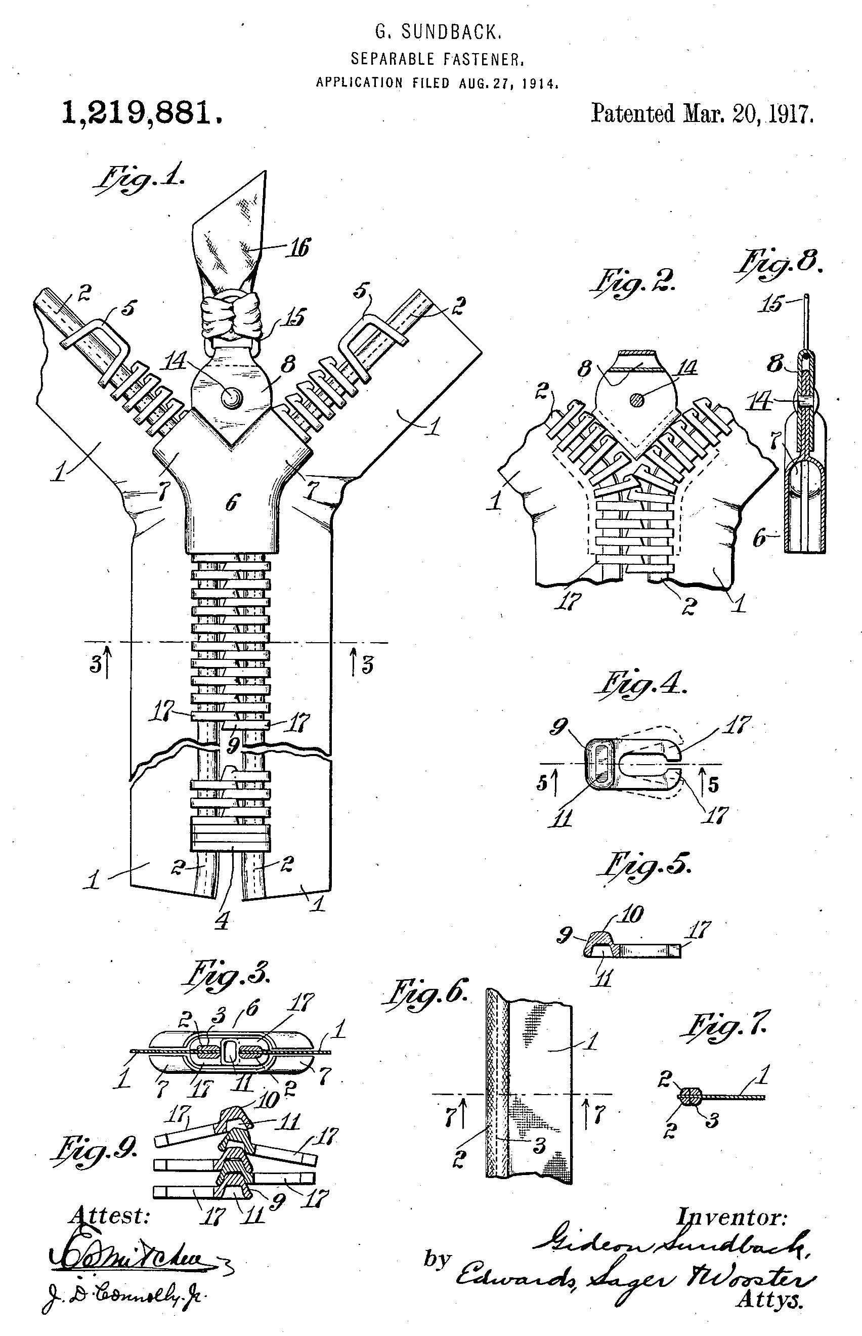 1917 patent of the "separable fastener" (zipper) by Gideon Sundbäck.